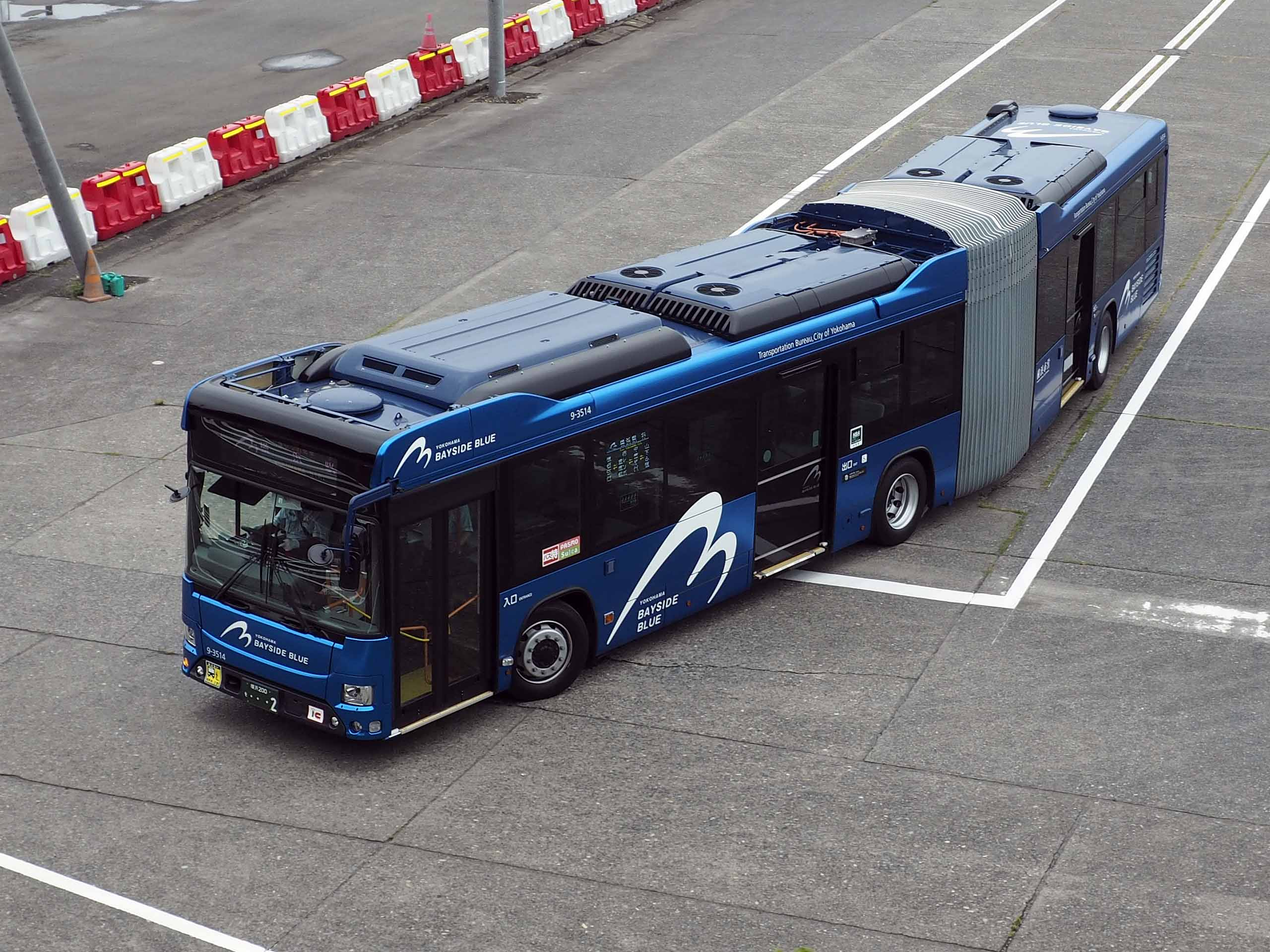 Bayside Blue, route bus in Yokohama bayside area by Yokohama City Bus since July 2020. Bayside Blue fleets are Hino Blue Ribbon articulated bus. Model: KX525Z1 License plate: KNY200 WO0002 Place: Yamashita Pier